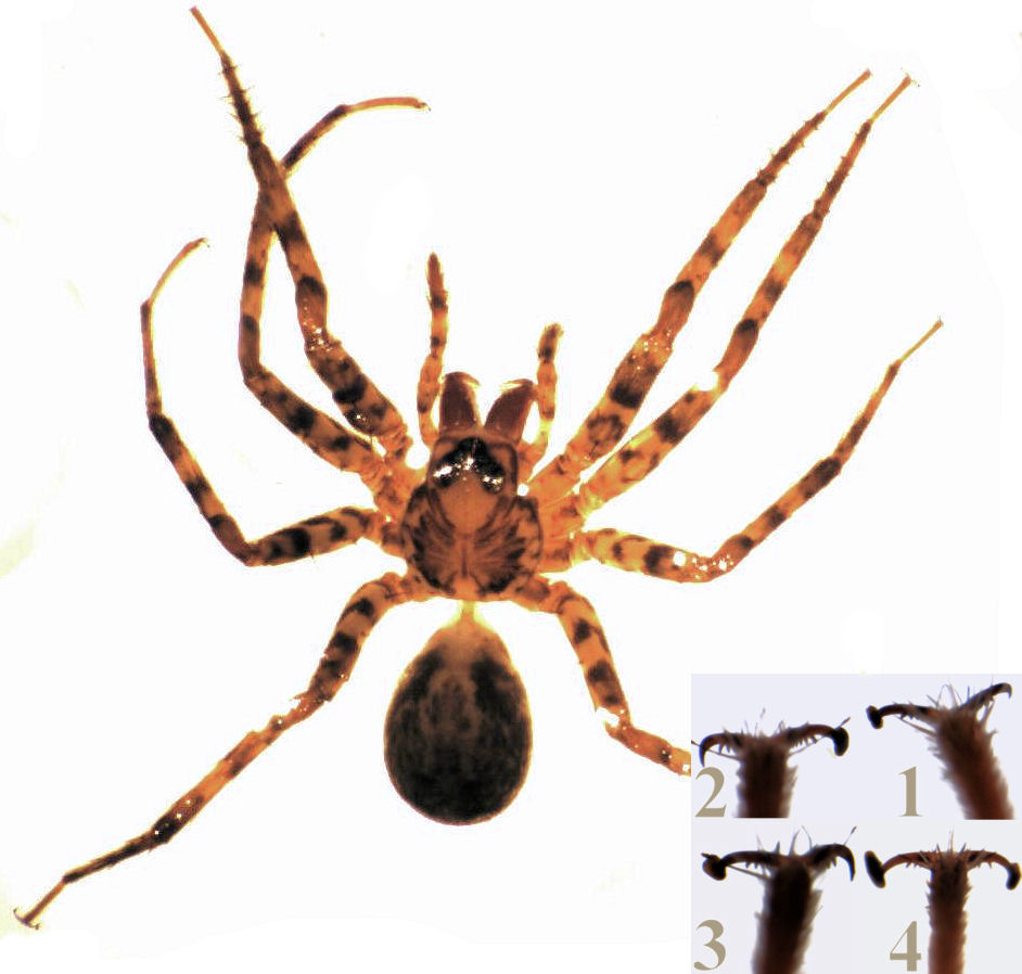 female Cycloctenus sp., the apparently modified claws have not been noted before and may be a deformity or artefact of preservation?